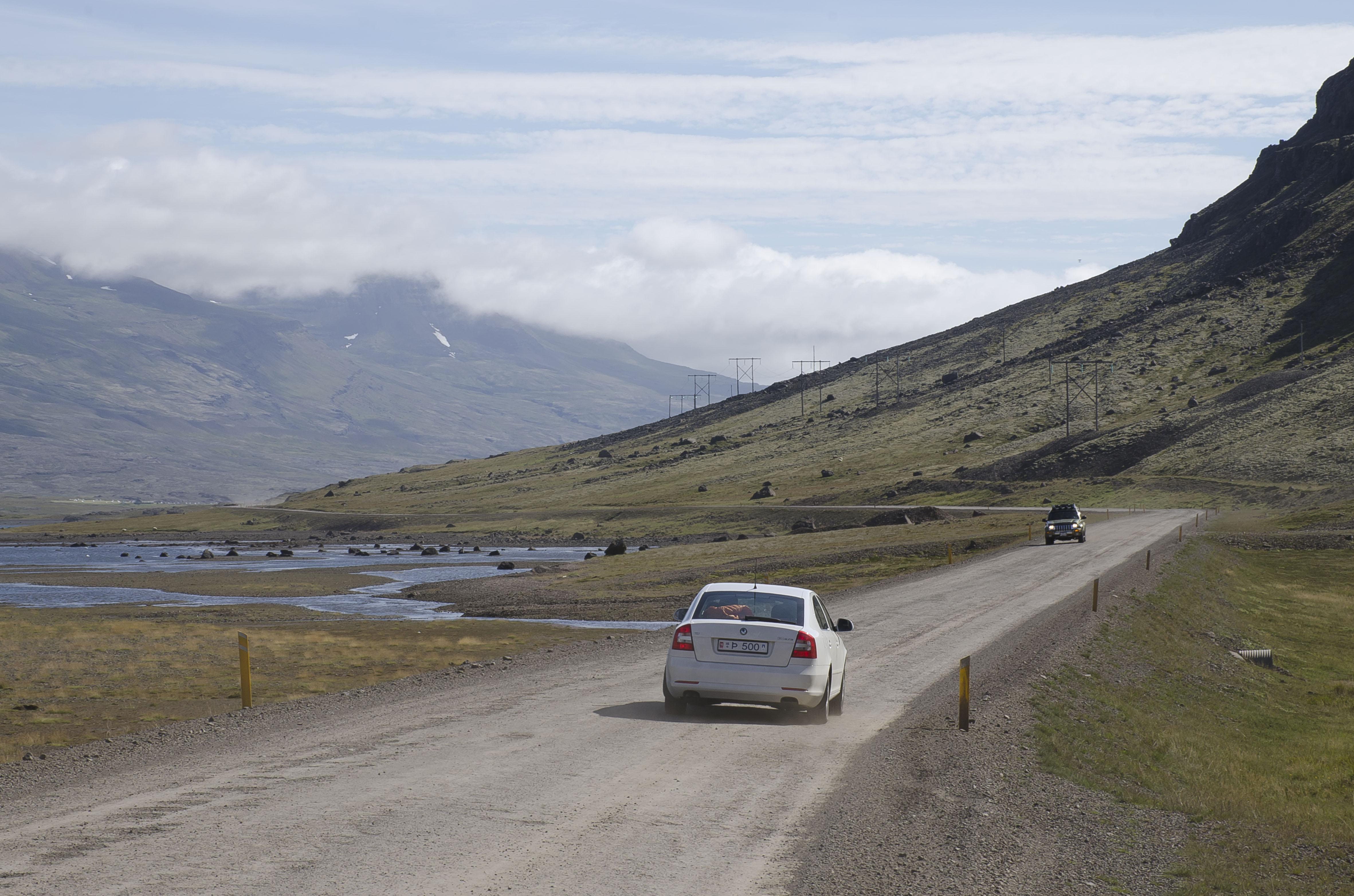 Unpaved stretch of the ring road, between Egilsstaðir and Höfn, Iceland